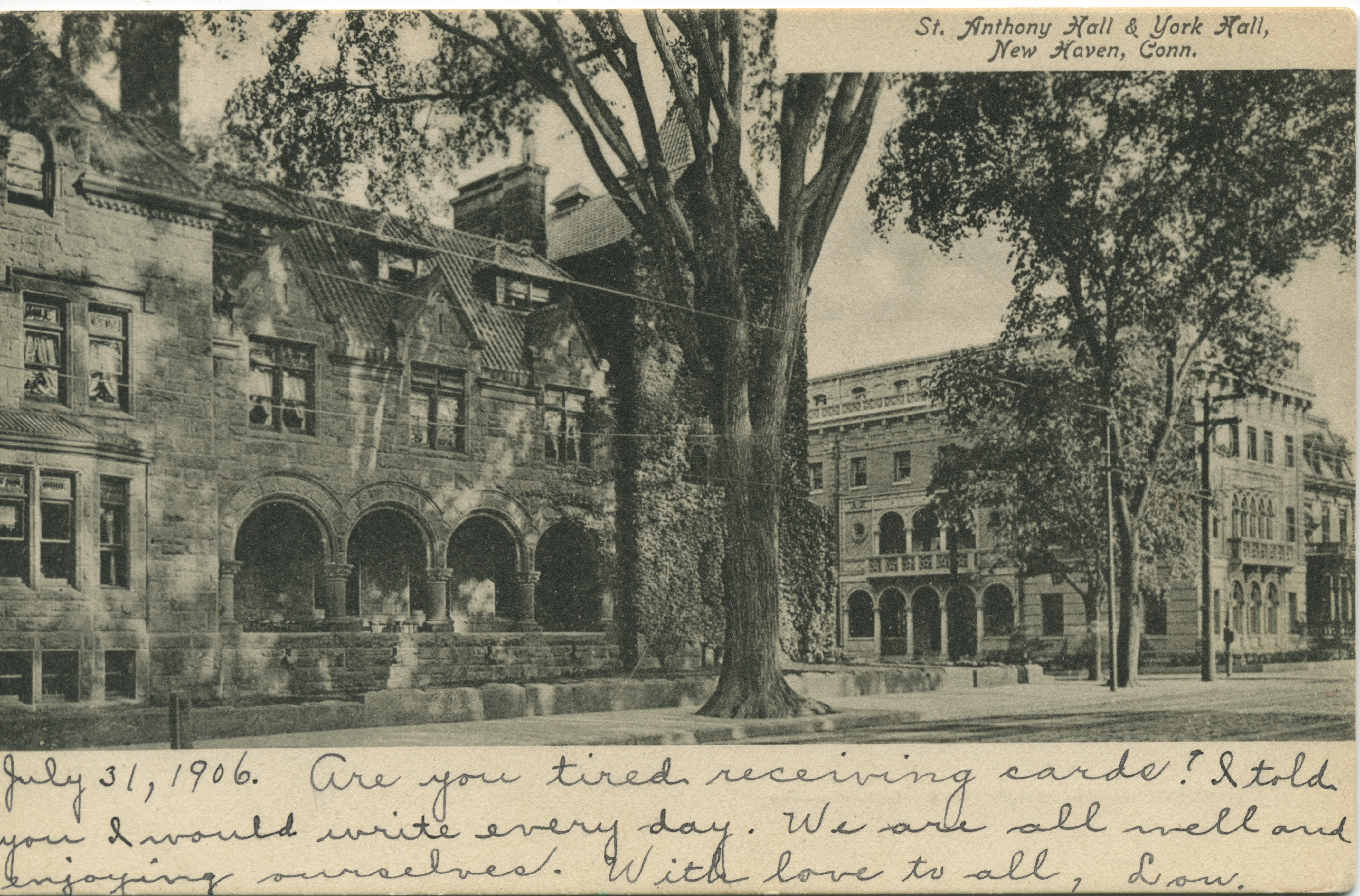 Heins & LaFarge, 1894-1913, St. Anthony Hall Sigma Chapter, New Haven (shows later-added dormitory)